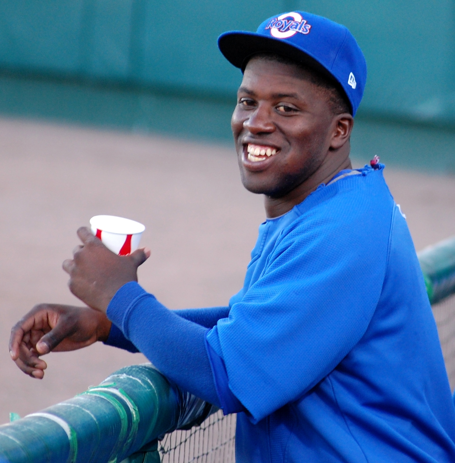 Devon Lowery of the Omaha Royals in the dugout at Rosenblatt Stadium in Omaha in 2010